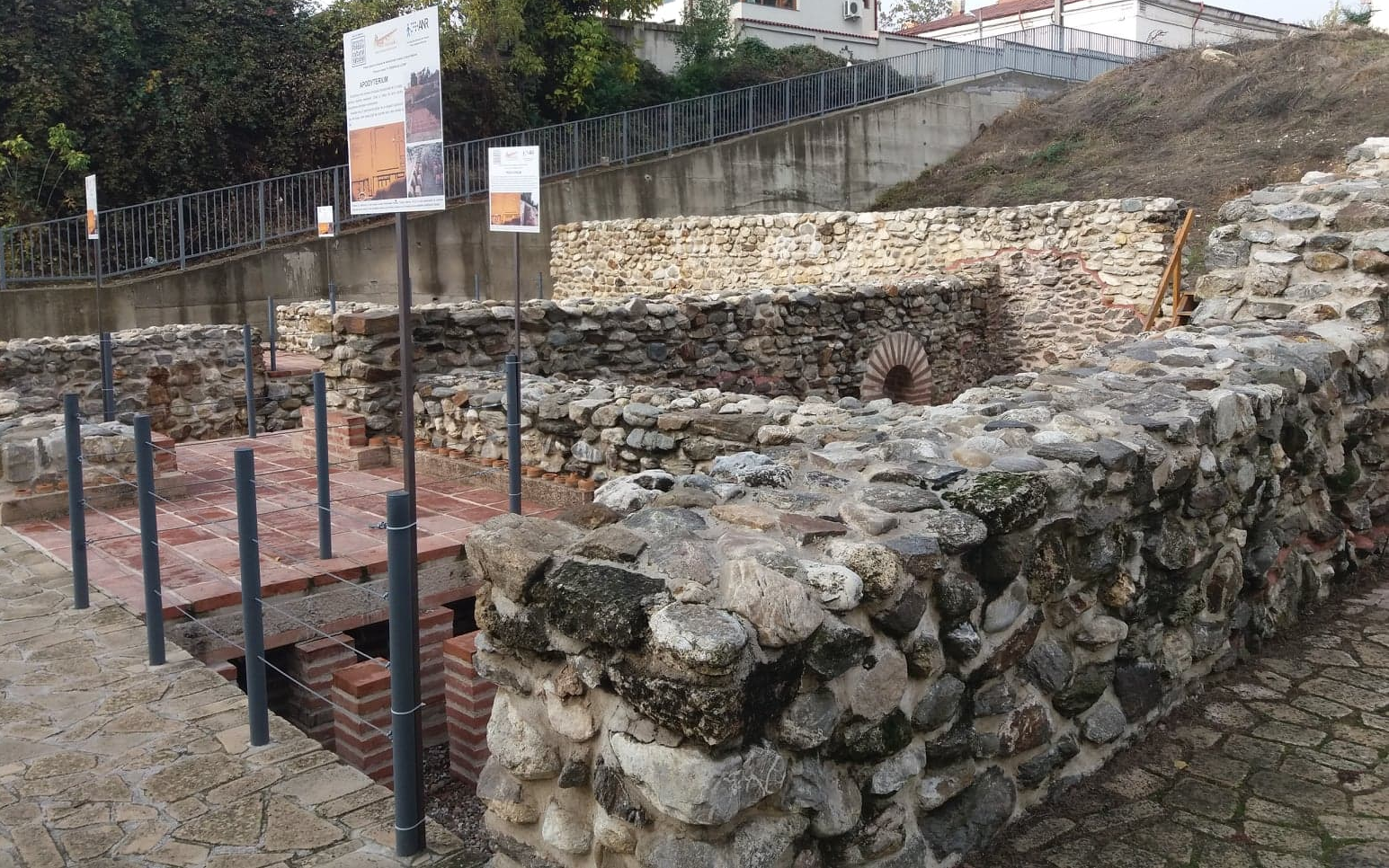 Castra of Drobeta was a fort in the Roman province of Dacia.